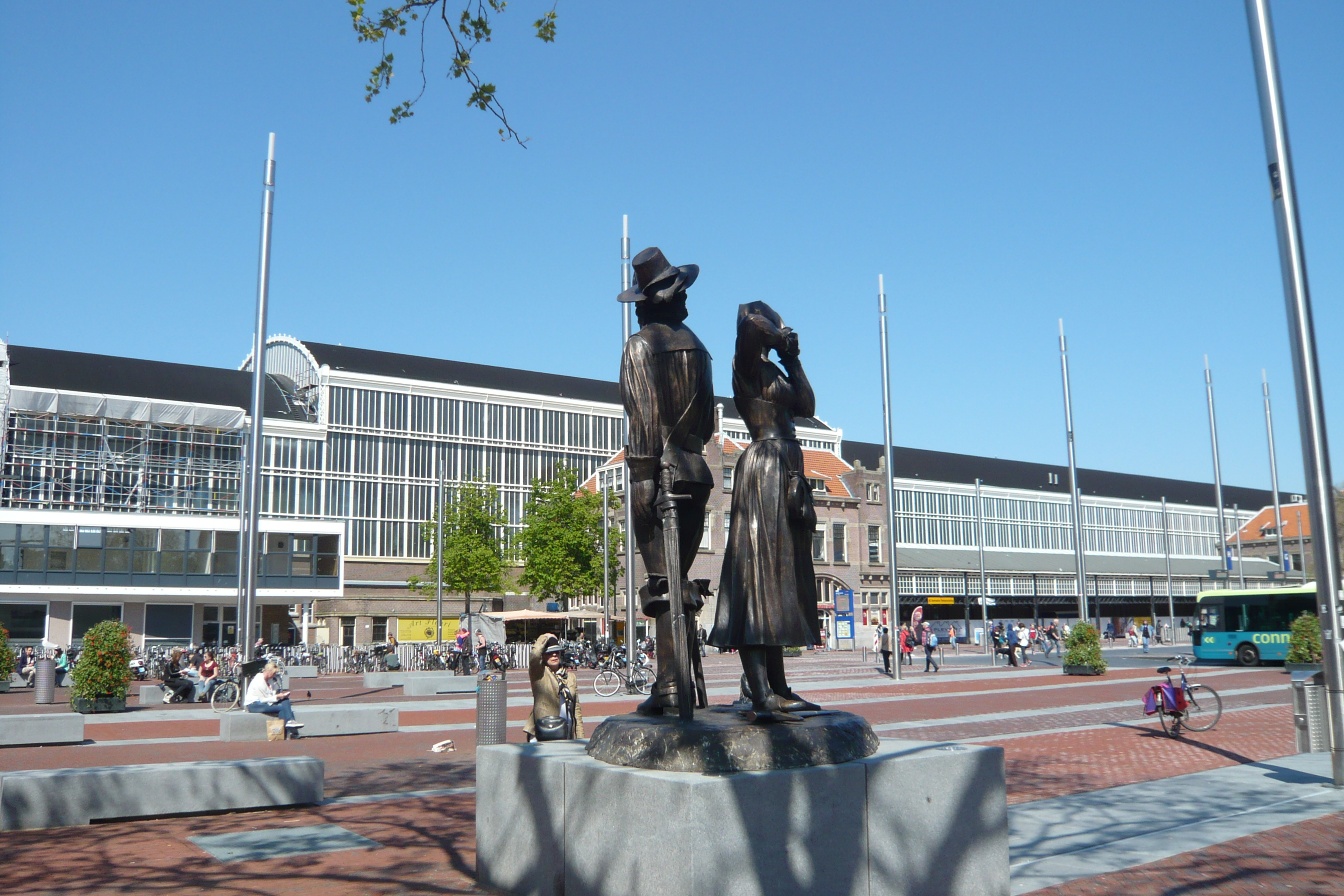 Kenau-Ripperda monument on Stationsplein Haarlem